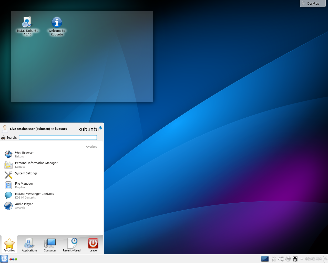 Kubuntu 13.10 Saucy Salamander Screenshot